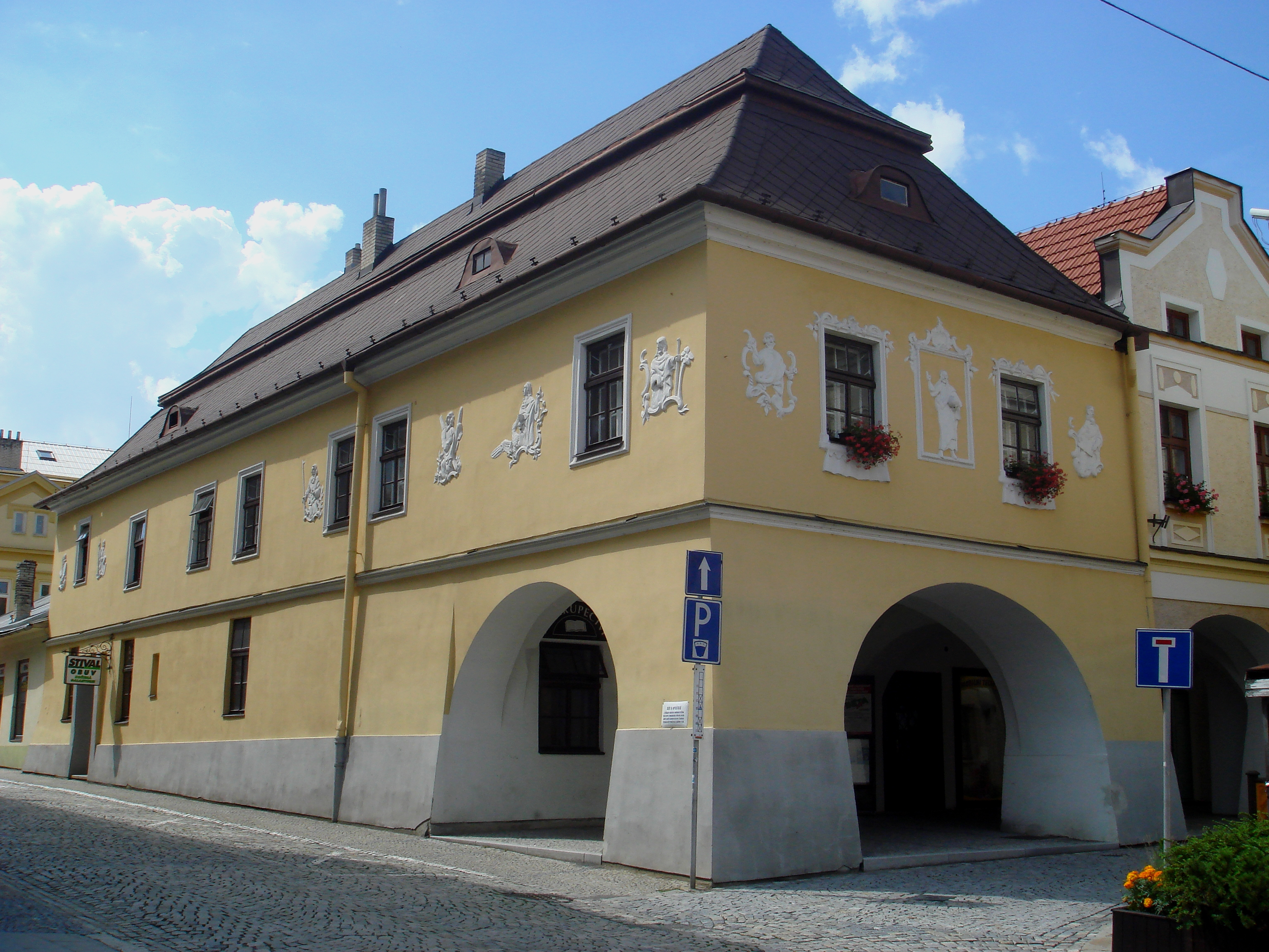 U Apoštolů (By the Apostles) House in Valašské Meziříčí (Zlín Region, Czech Republic).